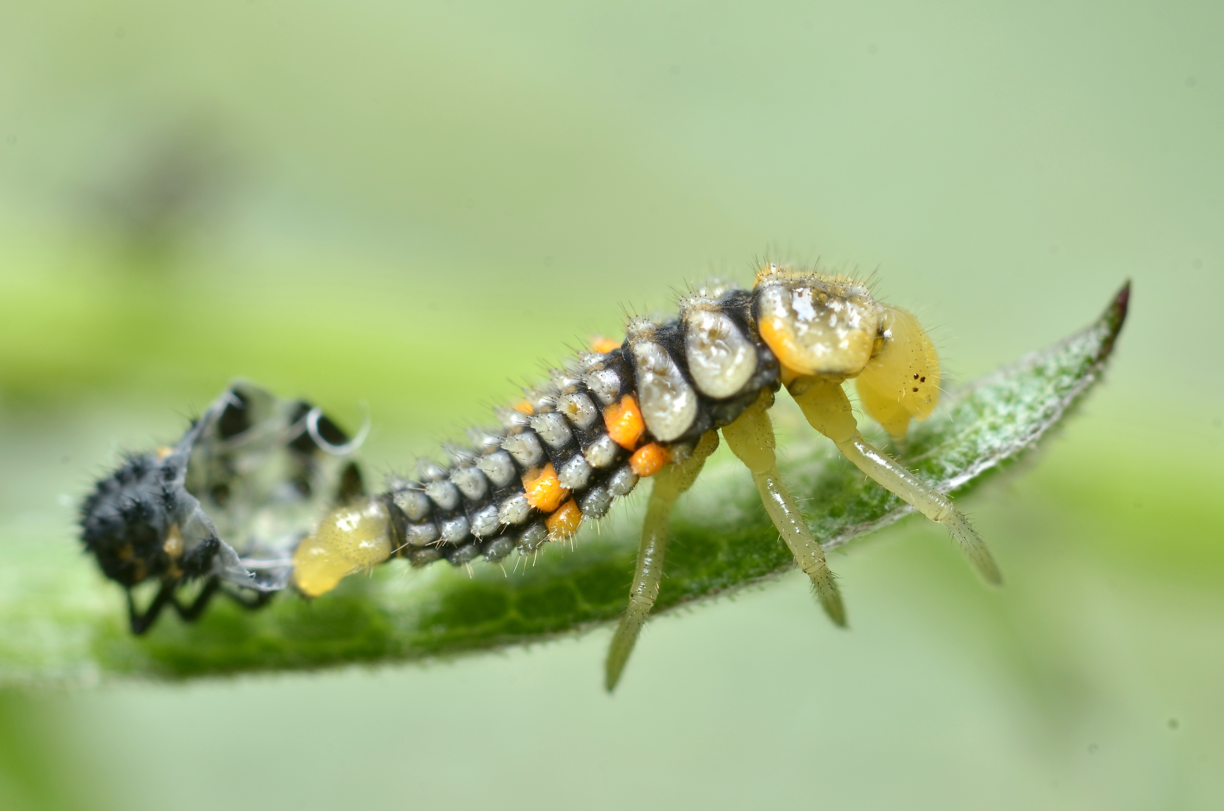 Molting between 3rd and 4th (last) larval instar